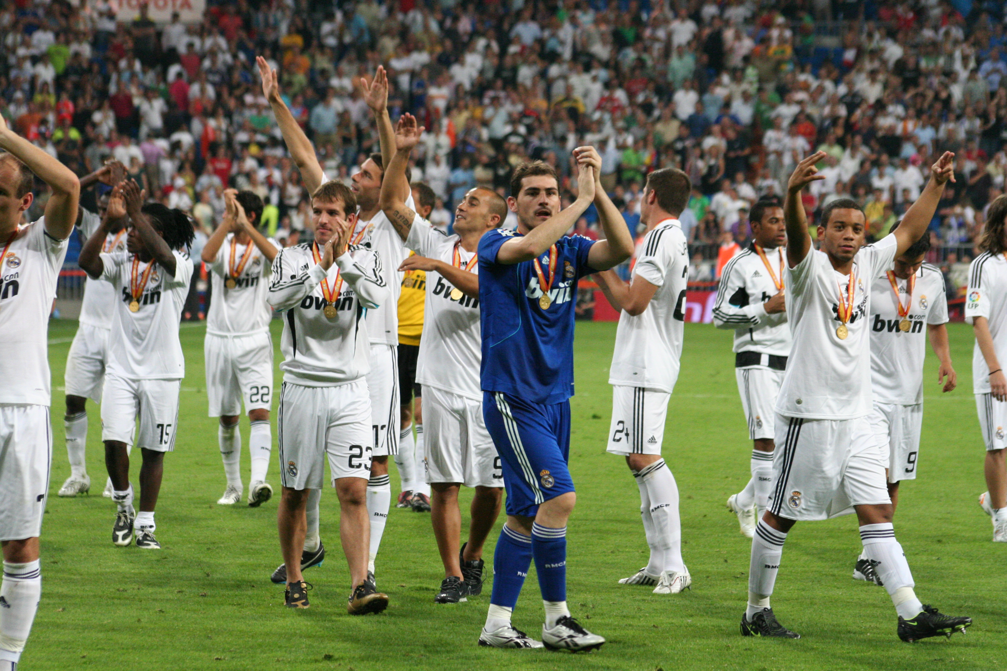 Real Madrid players celebrate Supercup victory over Valencia, 2008